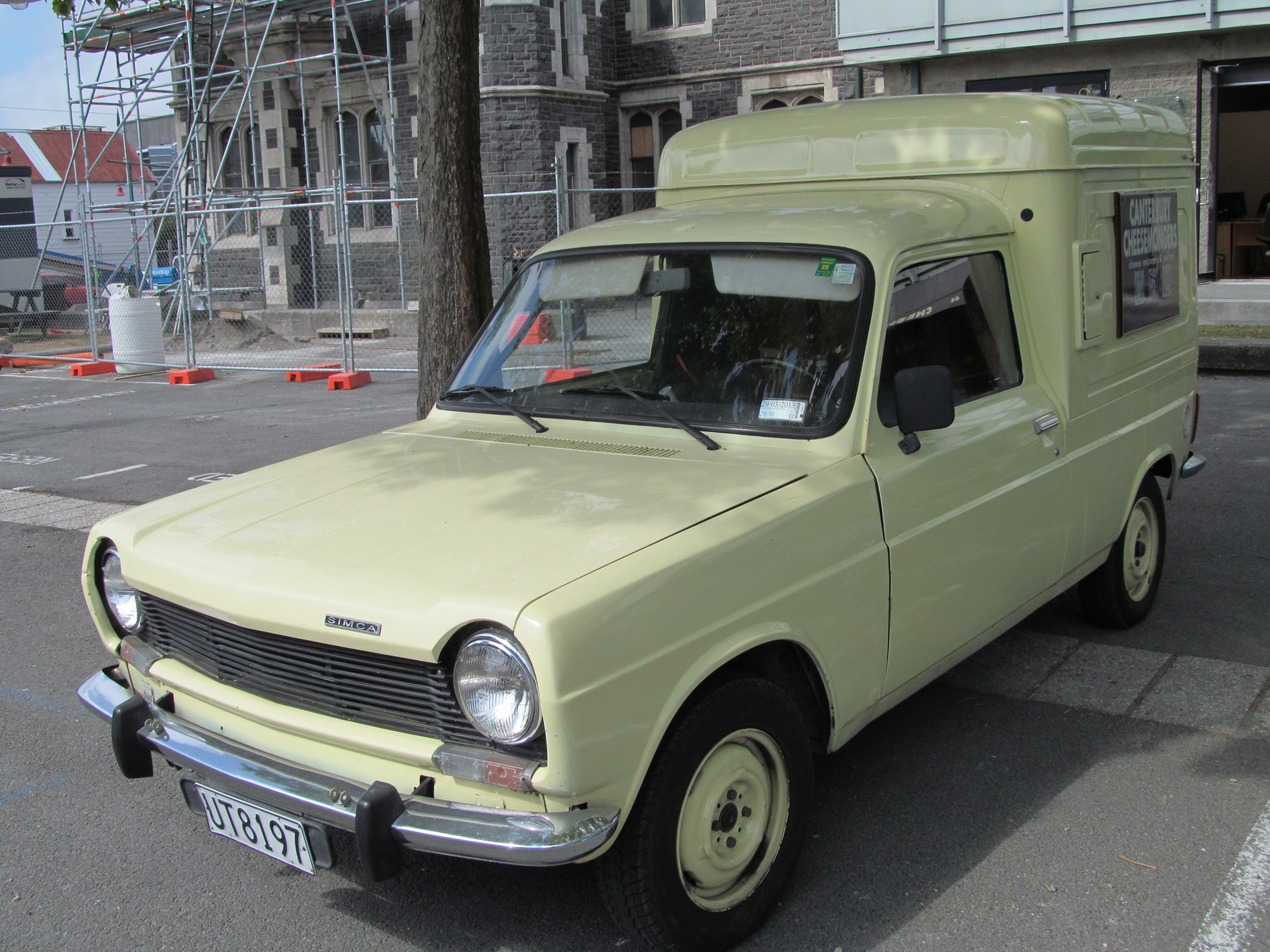 UT8197 Yay - this is my 1500th photo! I thought I'd celebrate the milestone by finally uploading this quirky gem. This is the only 1100 I have ever seen, and likely the only Simca-badged car as well. Despite being used as transport for a food business it is still in great condition.